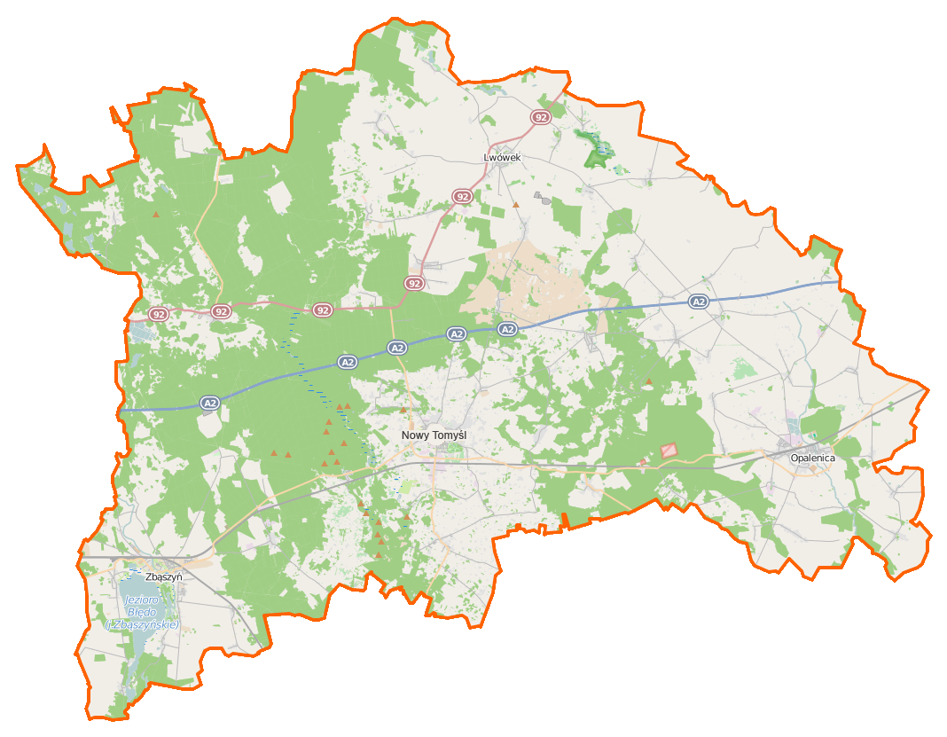 Map of Powiat nowotomyski, Poland This map of Powiat nowotomyski was created from OpenStreetMap project data, collected by the community. This map may be incomplete, and may contain errors. Don't rely solely on it for navigation. Border coordinates52.522915.7922←↕→16.524852.1744